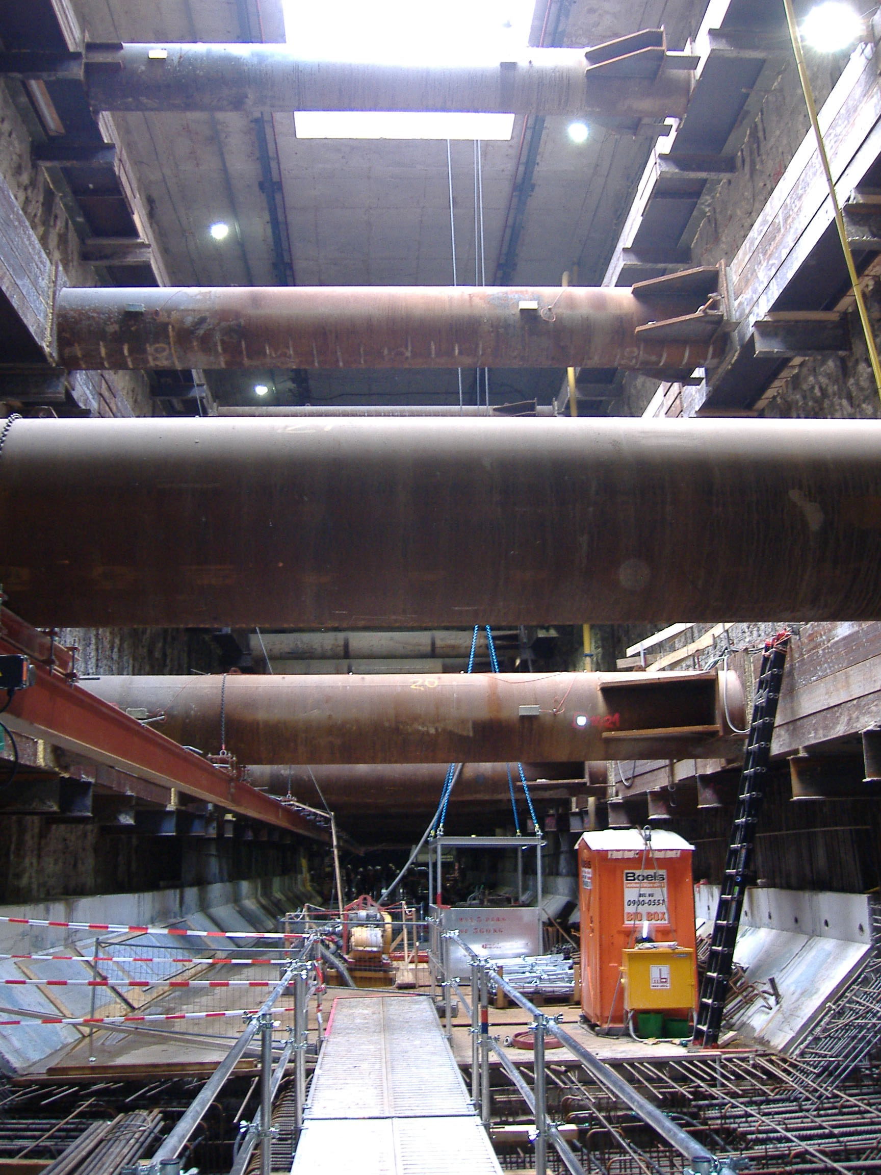 Building works at station Ceintuurbaan, part of the future North-South line of the Amsterdam metro. Future top platform at approx - 20 m. Facing south.